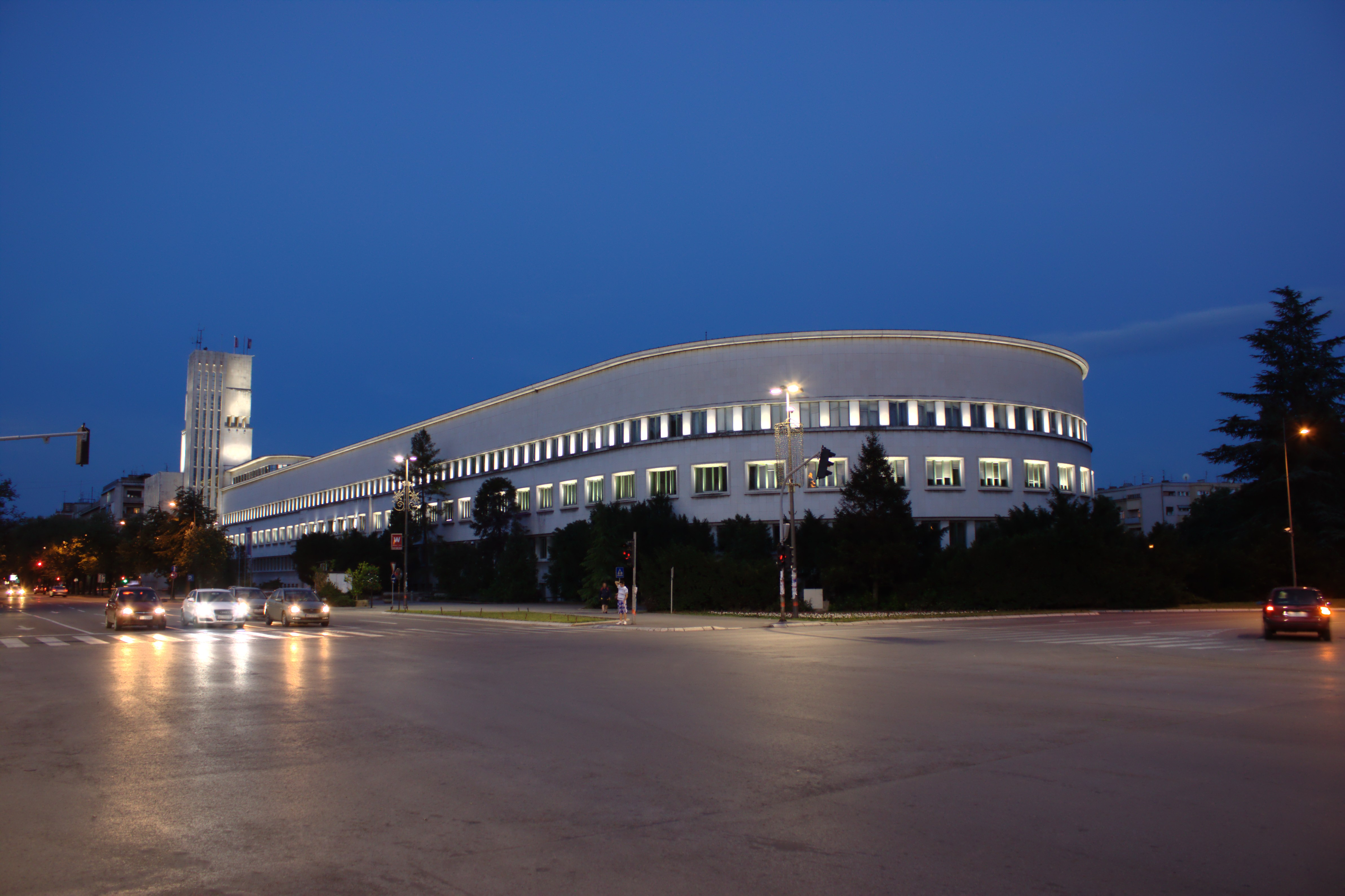 Vojvodina government building also known as the Banovina in the evening, Novi Sad, Serbia